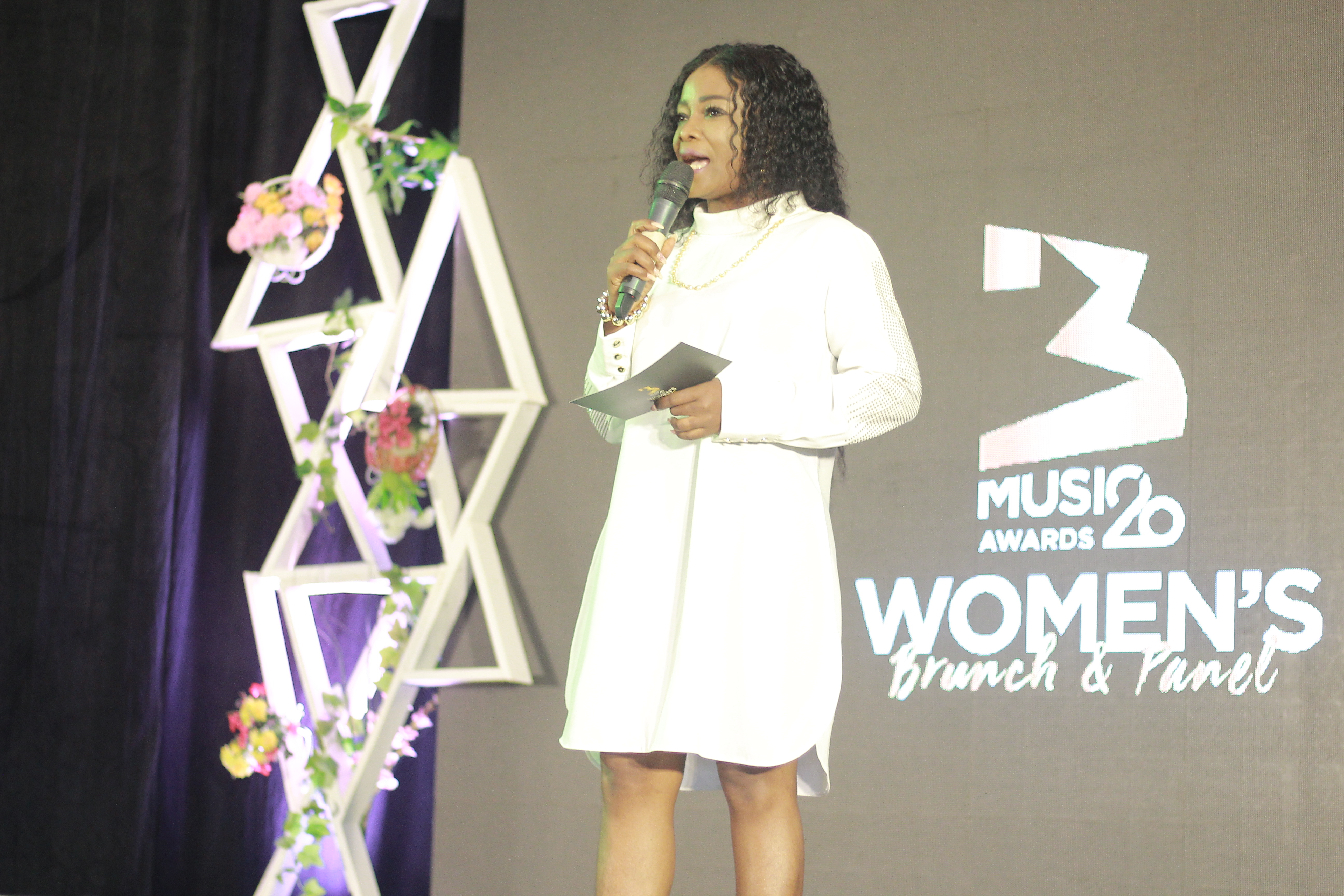 Gospel Artist